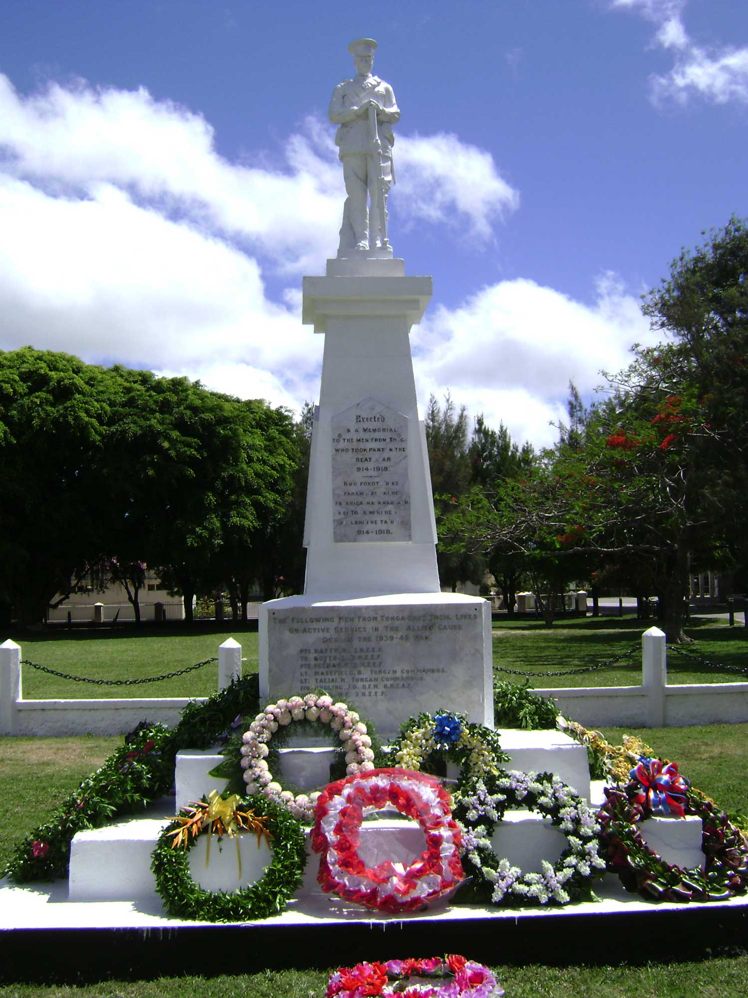 Monument for the great war 1914—1918 in Nukuʻalofa, Tonga